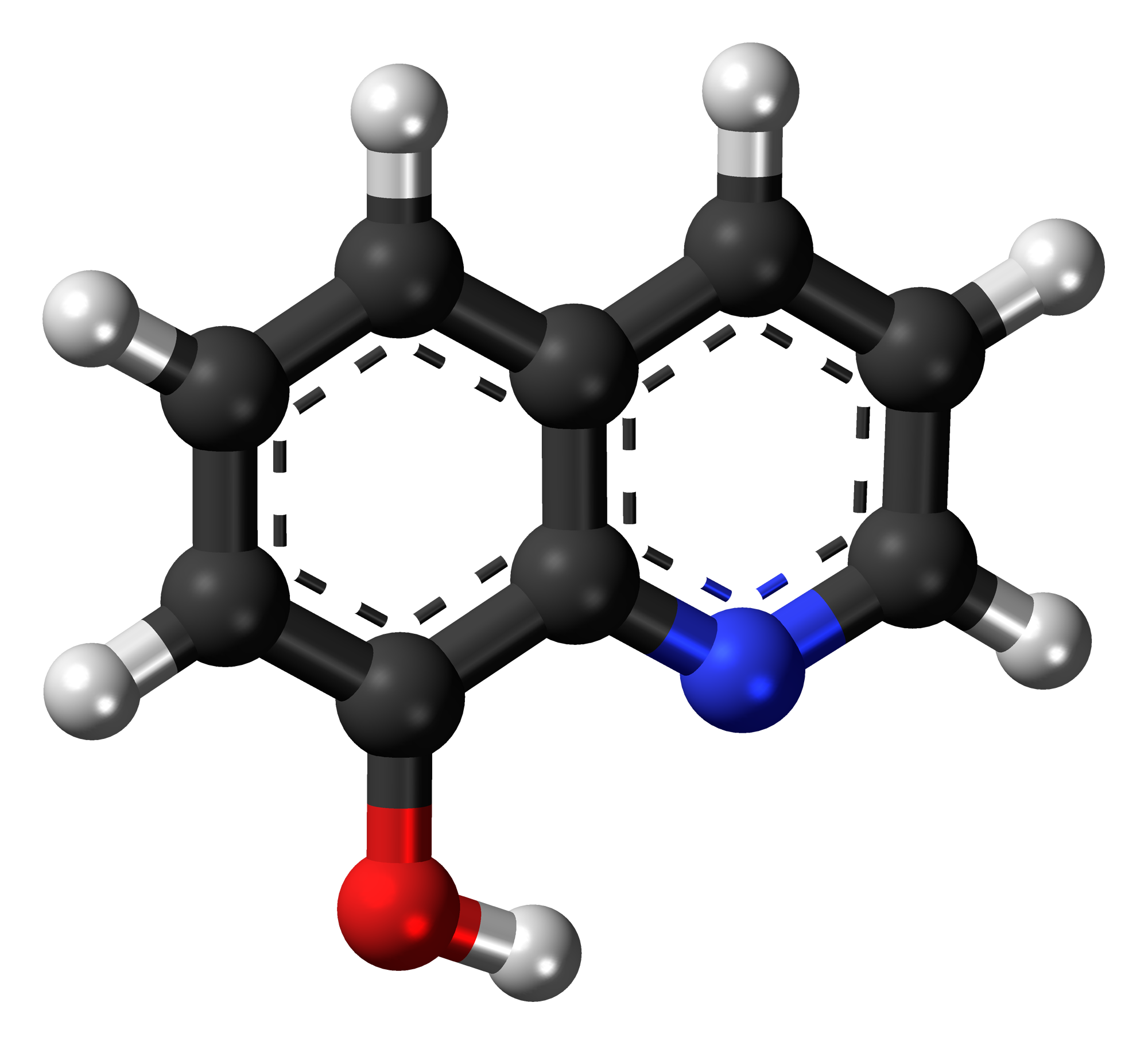 Ball-and-stick model of the 8-hydroxyquinoline molecule a chelating agent. Colour code: Carbon, C: black Hydrogen, H: white Oxygen, O: red Nitrogen, N: blue